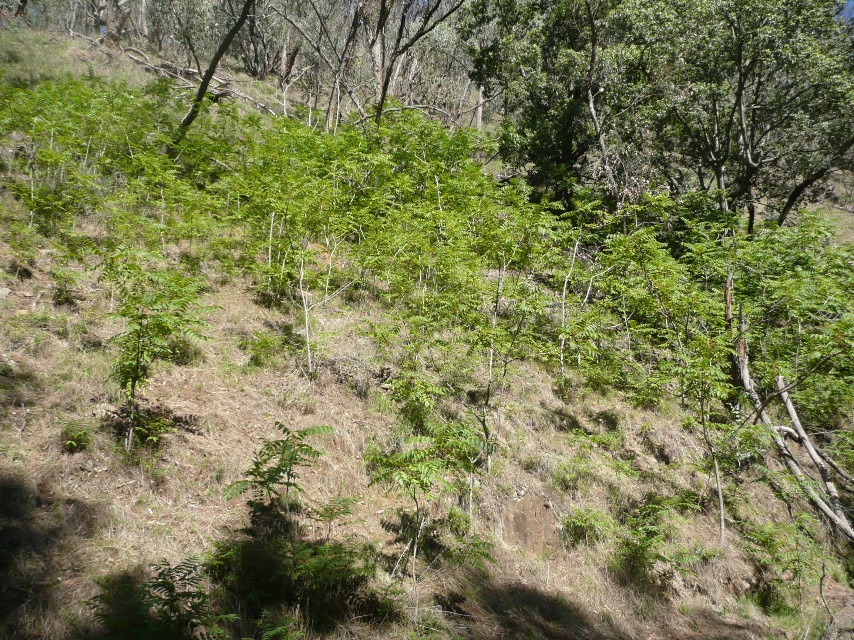 Ailanthus altissima growing as a weed in southern New South Wales, Australia.